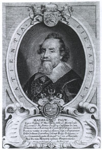 Adriaen Pauw (1622-1697) from Portraits Des Hommes Illustres